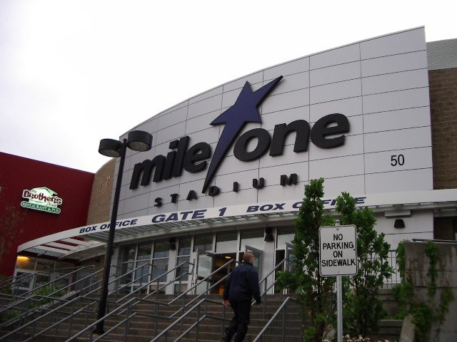 Mile One Stadium, St. John's, Newfoundland photo taken by JCmurphy in Sept. 2004